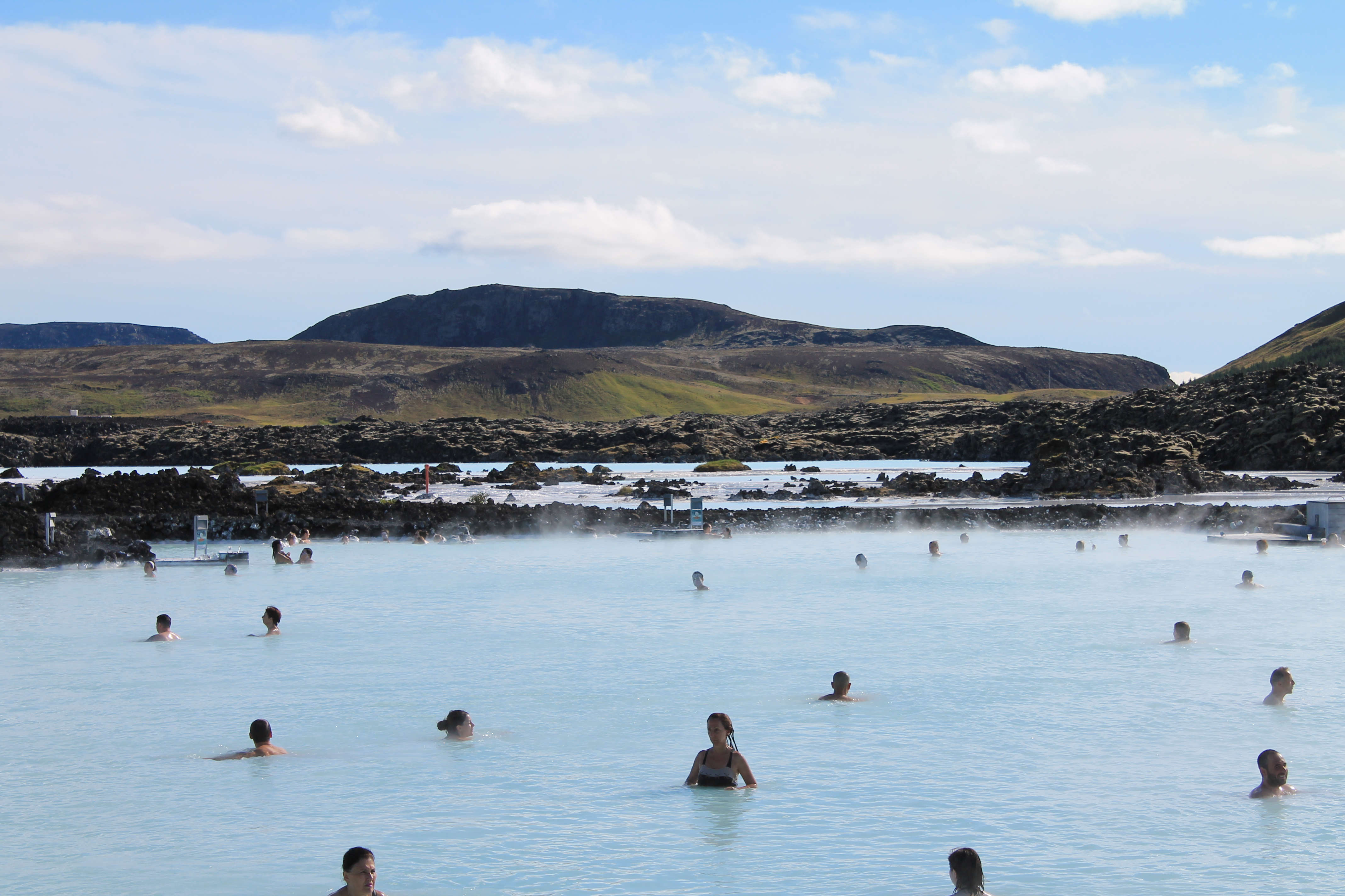 An overlook of the Blue Lagoon.